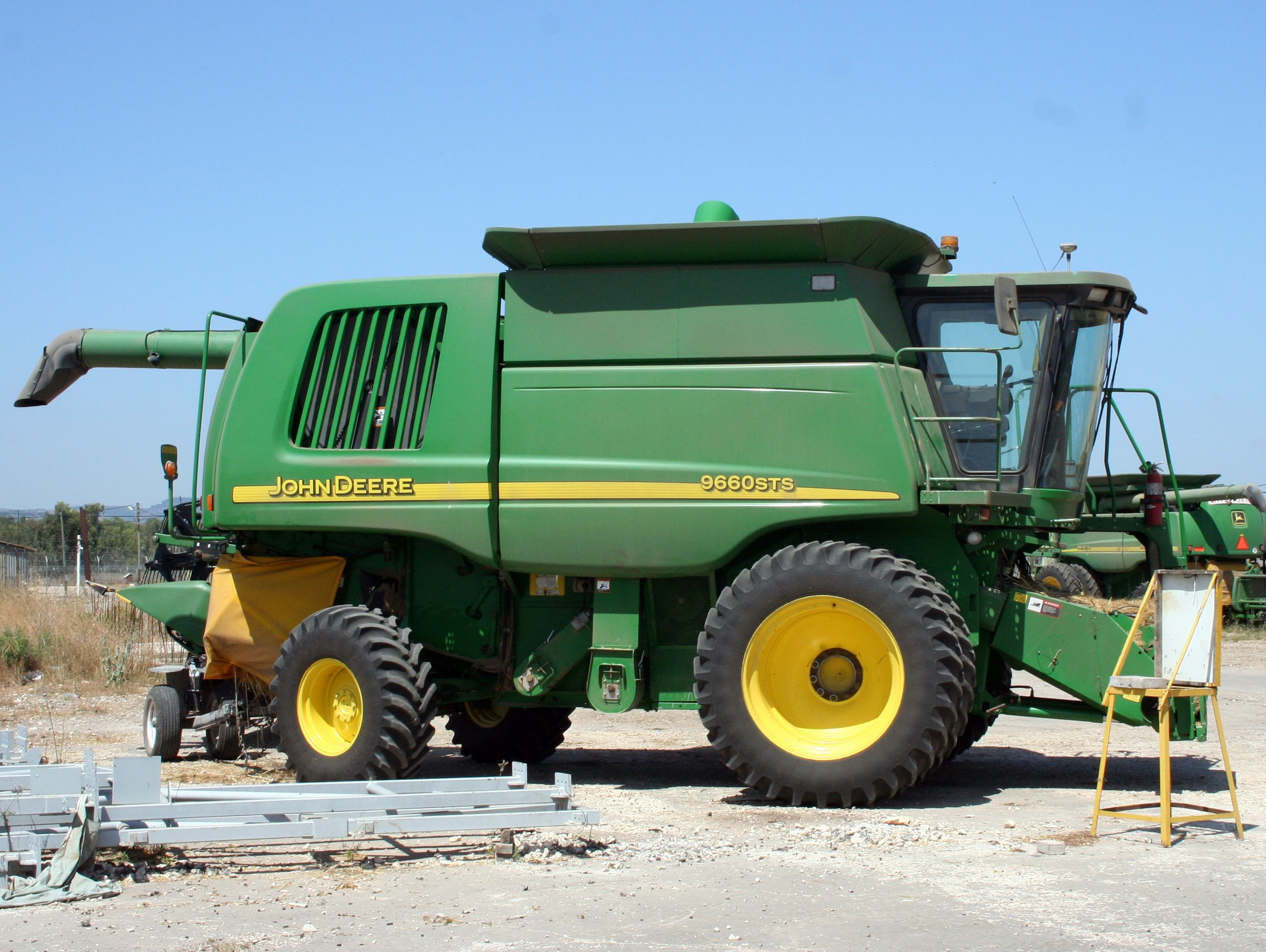 Side view of a John Deere 9660STS combine harvester